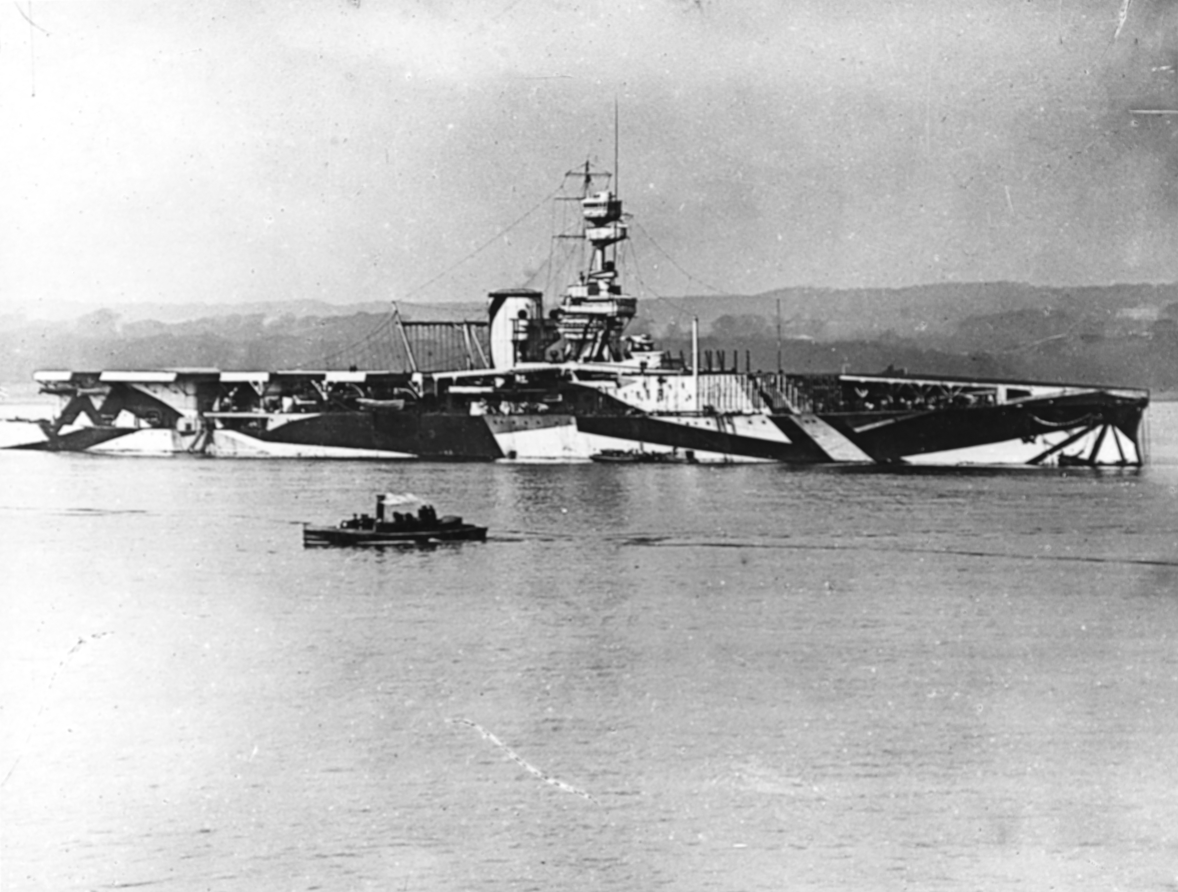 HMS Furious (British Aircraft Carrier, 1917-1948) In a British port in 1918, after she had been fitted with a landing-on deck aft. Note the large crash barrier rigged behind her funnel, her "dazzle" camouflage, and the steam launch passing by in the foreground. U.S. Naval Historical Center Photograph.